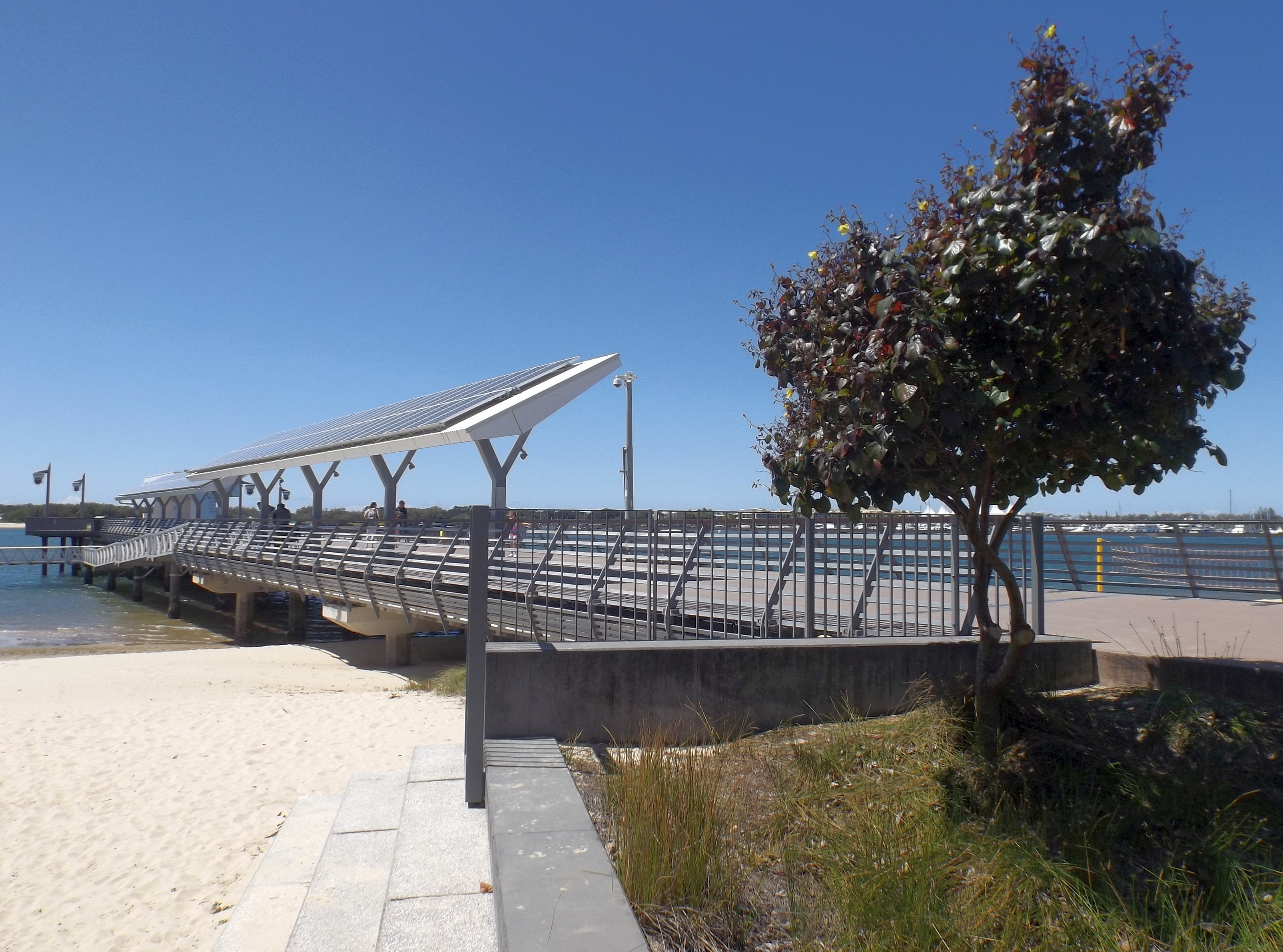 Photo of the Southport Pier at Southport, Gold Coast City, Queensland, Australia.